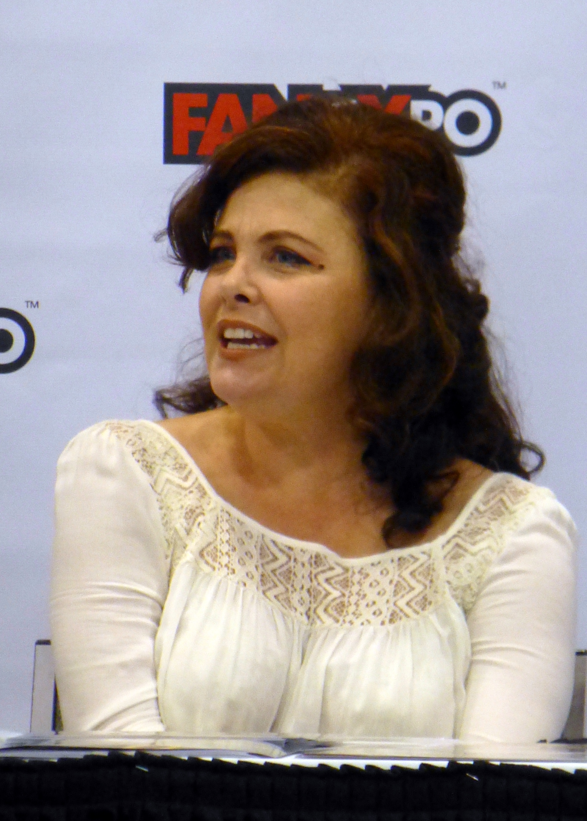 Sherilyn Fenn 01 2014 Fan Expo Canada